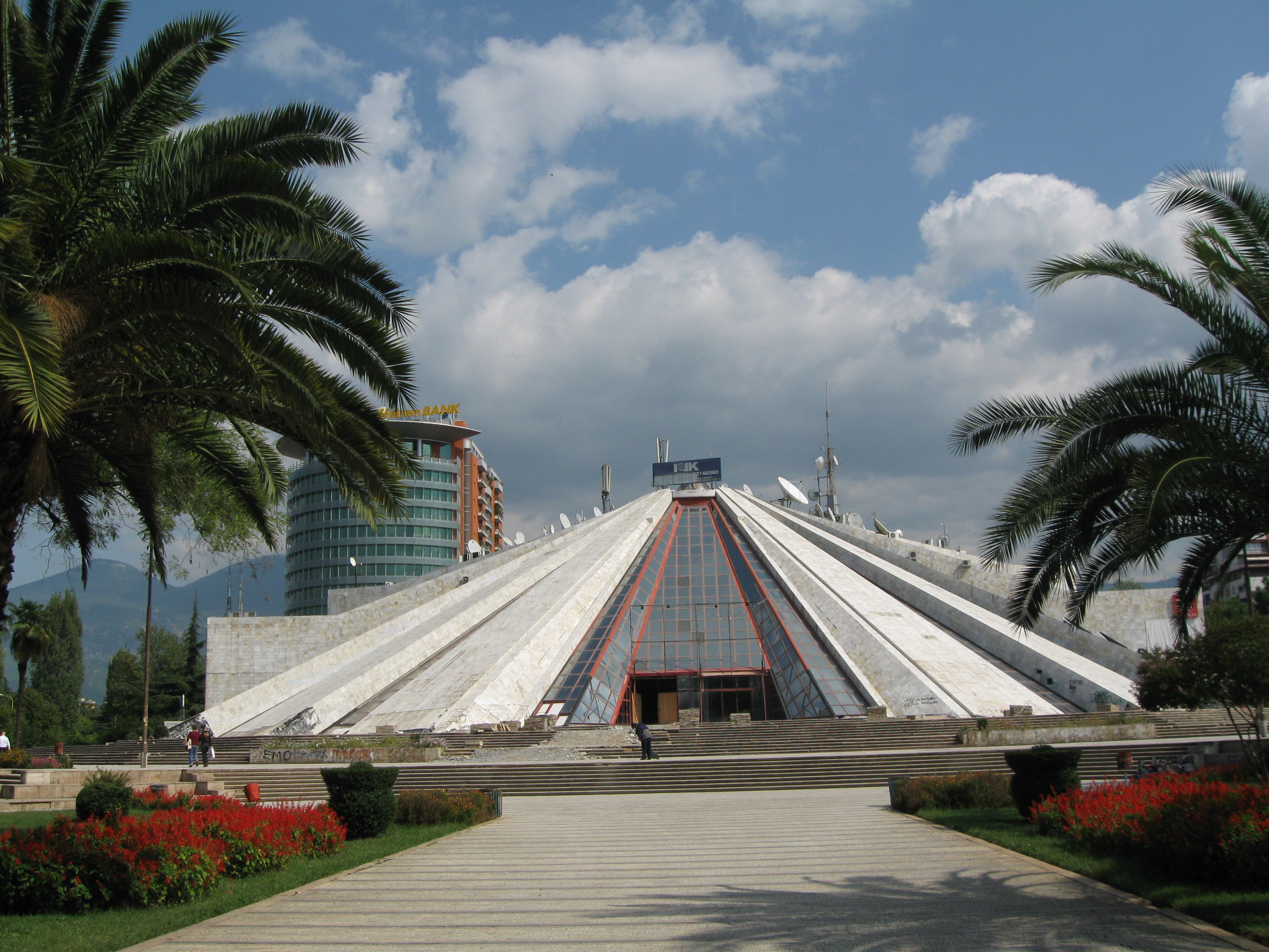 Dëshmorët e Kombit Boulevard, Pyramid of Tirana, formerly known as Enver Hoxha Museum